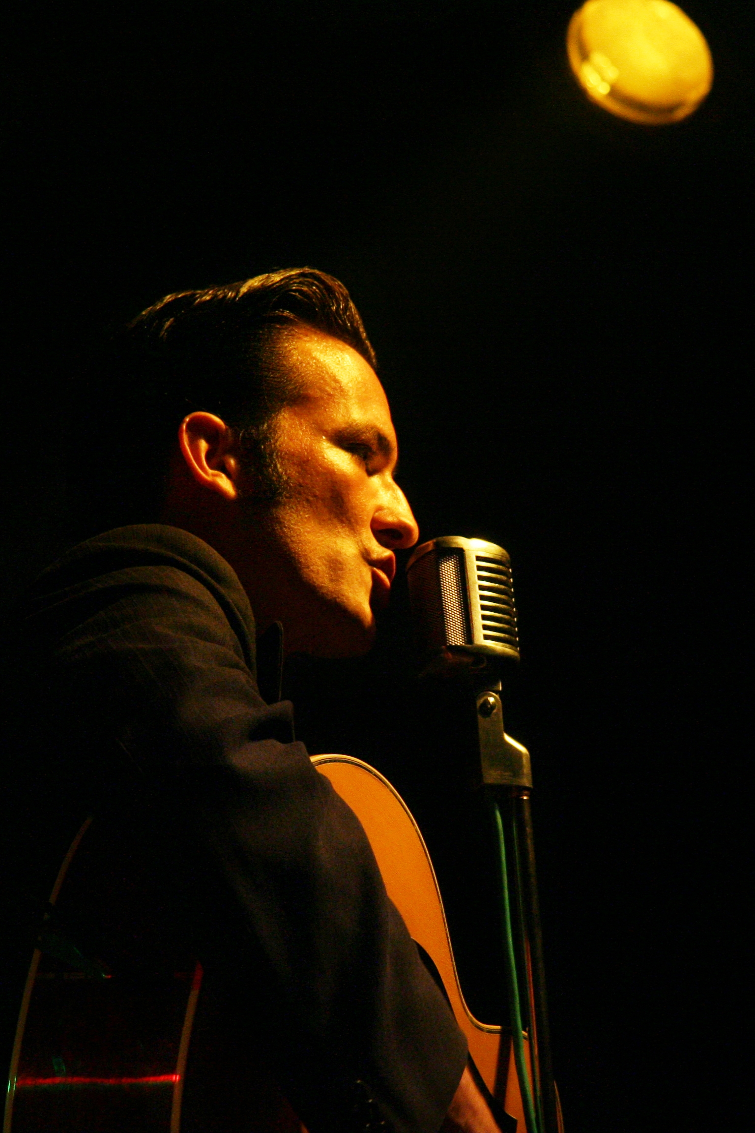 Rock'n'Roll singer (Johnny Trouble of Johnny Trouble Trio).